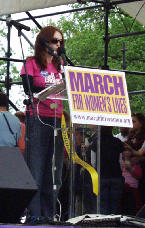 Actress, Julianne Moore, who is a pro-choice activist, appeared at the March for Women's Lives on April 25, 2004 in Washington DC where she spoke to a crowd of tens of thousands of marchers. Photograph by Patty Mooney of San Diego, California